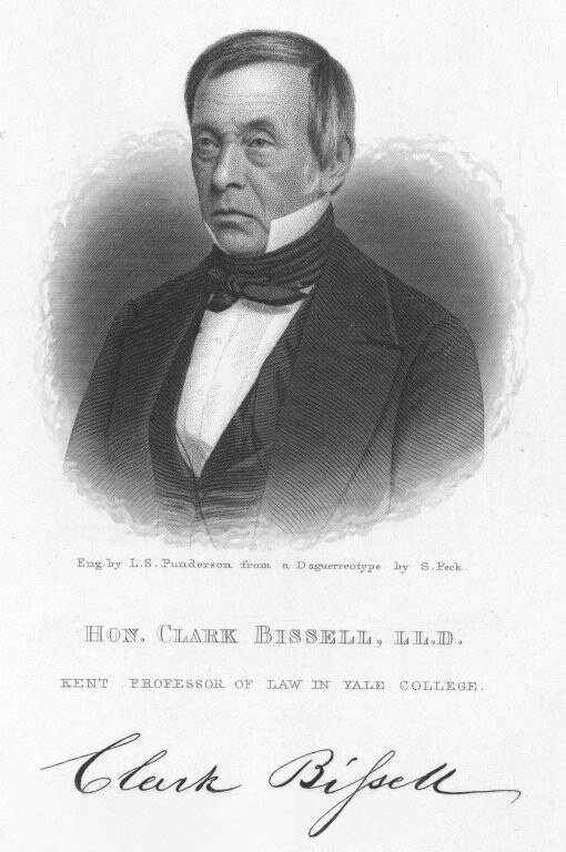 Portrait of Clark Bissell, Kent professor of law, Yale College, and 19th governor of Connecticut (1847-1849). (Bissell's first name is sometimes spelled 'Clarke,' with an 'e.')